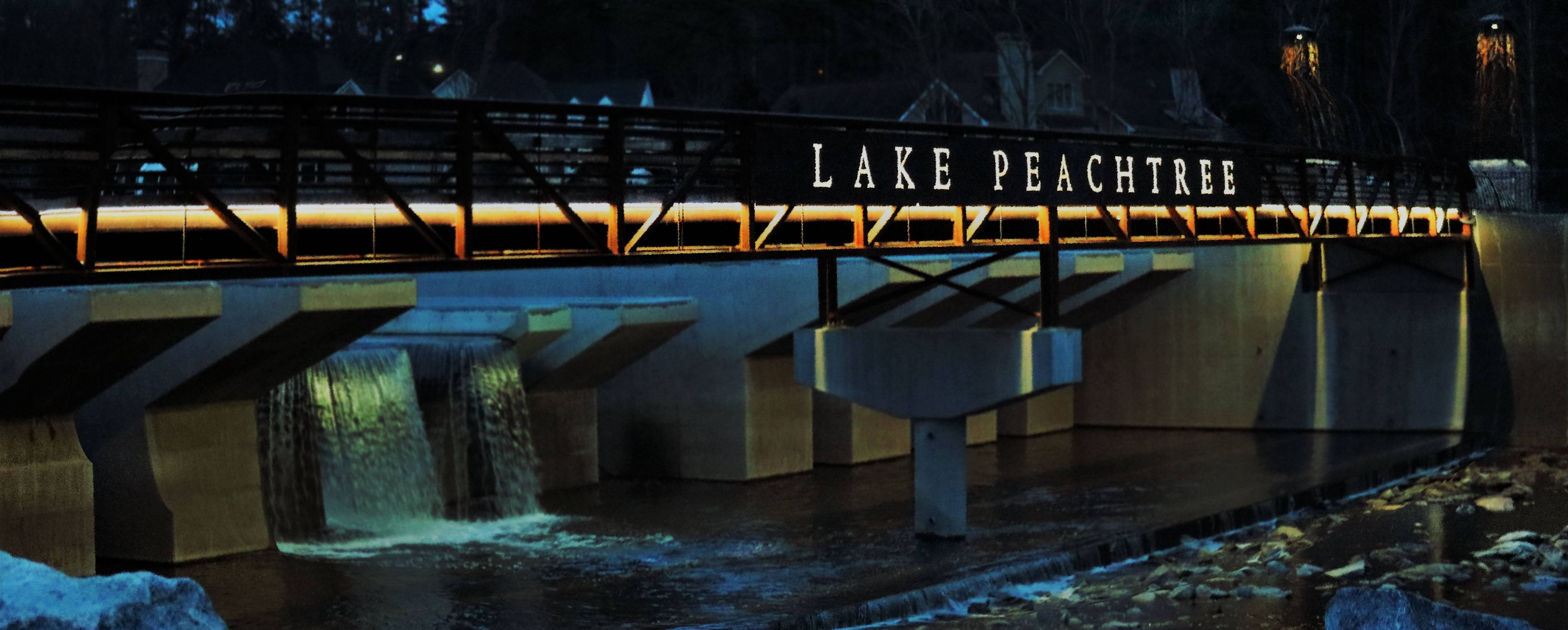 Lake Peachtree Bridge at night